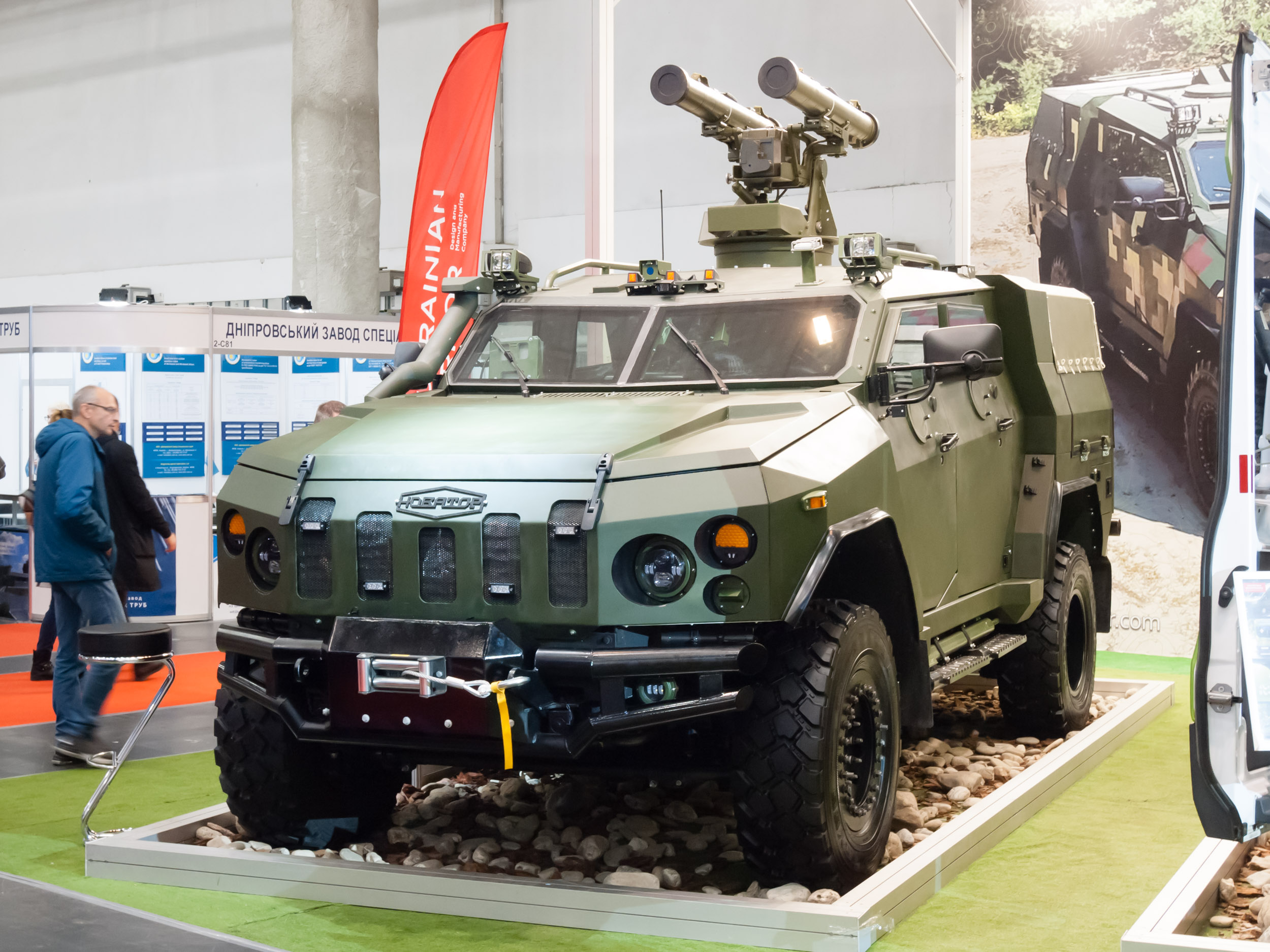 Novator armored car by Ukrainska bronetekhnika (Ukraine). 'Zbroya ta Bezpeka' military fair, Kyiv, Ukraine, 2019